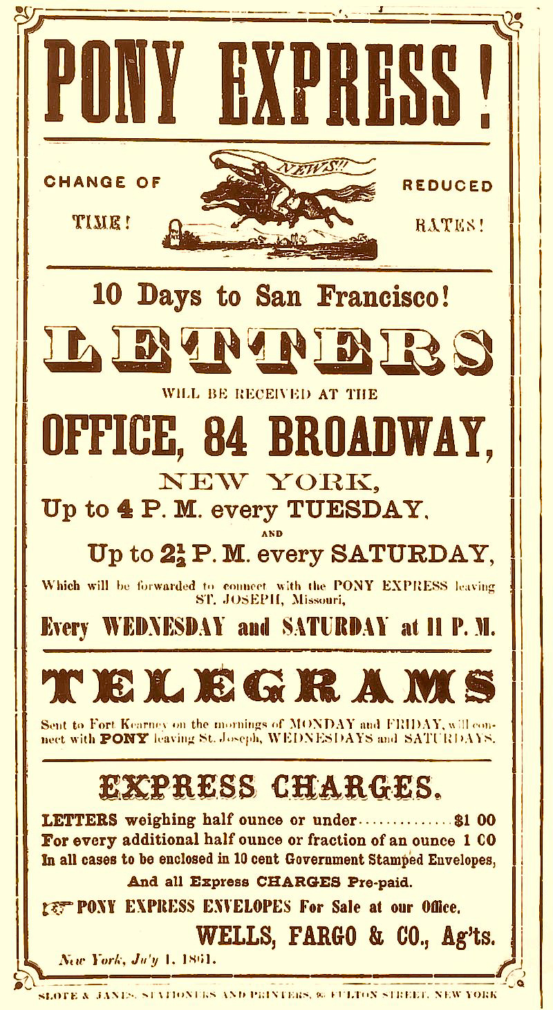 Poster from the Pony Express, advertising fast mail delivery to San Francisco.